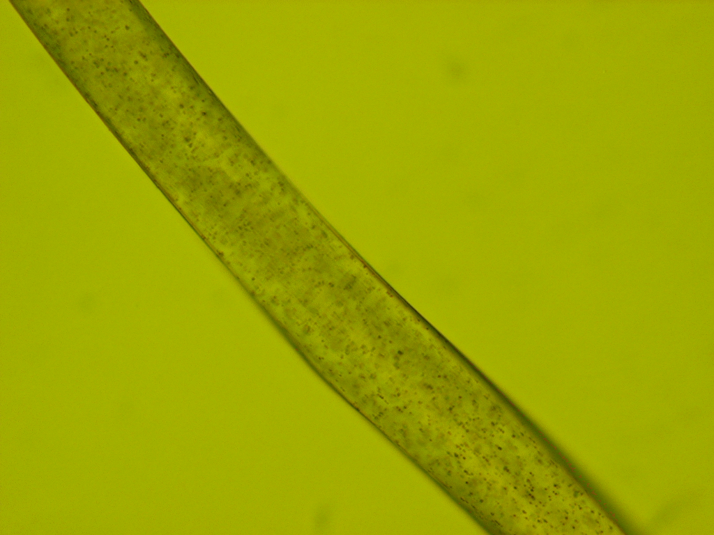 Polyester 40X Magnification Taken at Strathclyde University Forensic Science Department Taken By Edward Dowlman